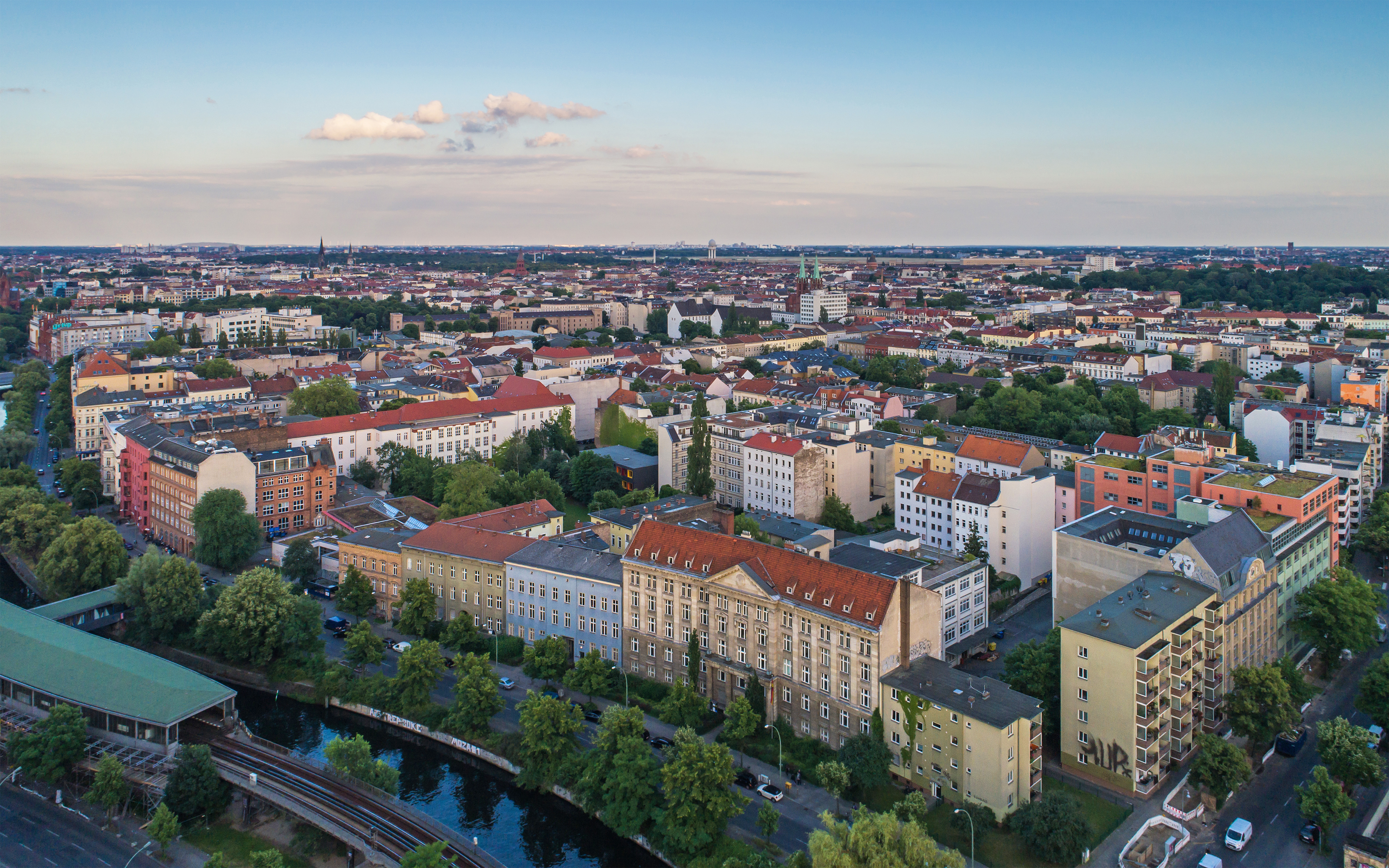 Aerial photo of Tempelhofer Ufer in Berlin (Germany)